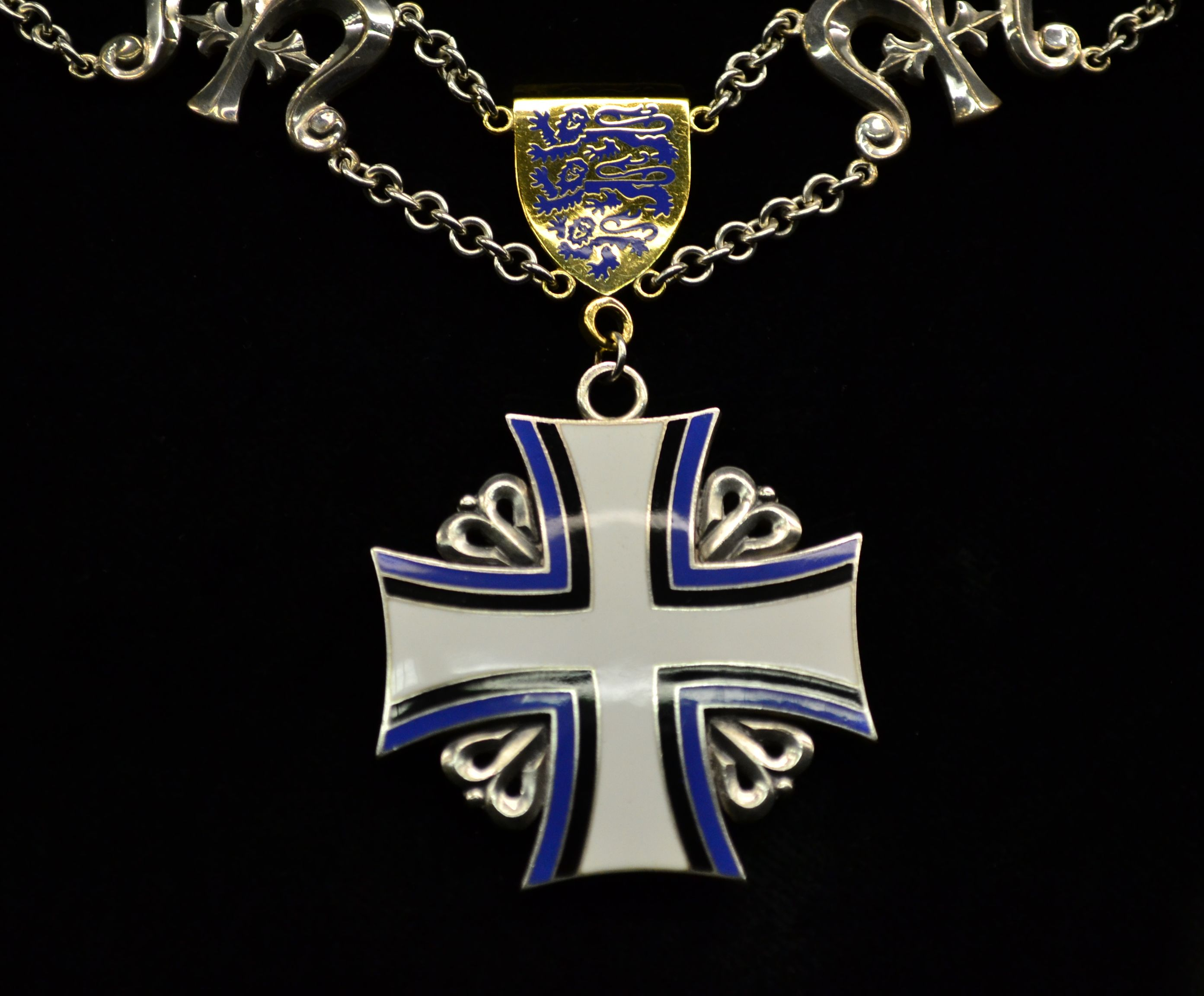 Estonia. Order of the Cross of Terra Mariana, insignias of the Collar class. The exhibition of the Estonian State Decorations at the National Library of Estonia in Tallinn.